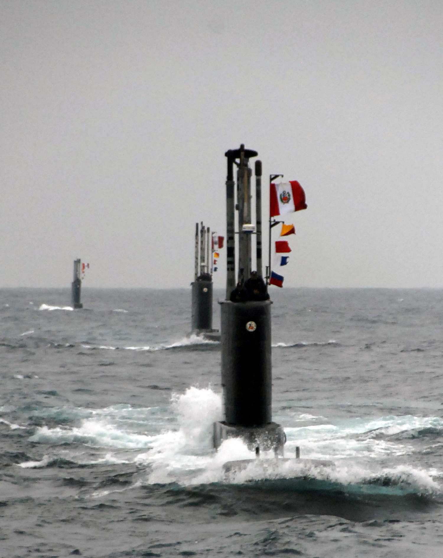 The Peruvian submarines BAP Pisagua (SS-33), BAP Chipana (SS-34), and BAP Islay (SS-35) ride on the surface in a column during this of the 2009 Peruvian PASSEX.